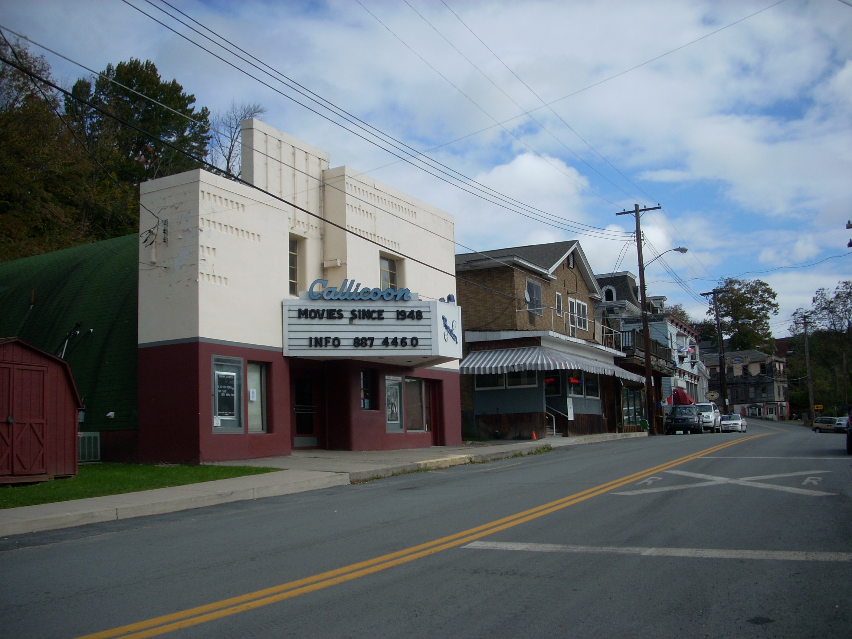 Callicoon Theater, Sullivan County's oldest and only single screen cinema